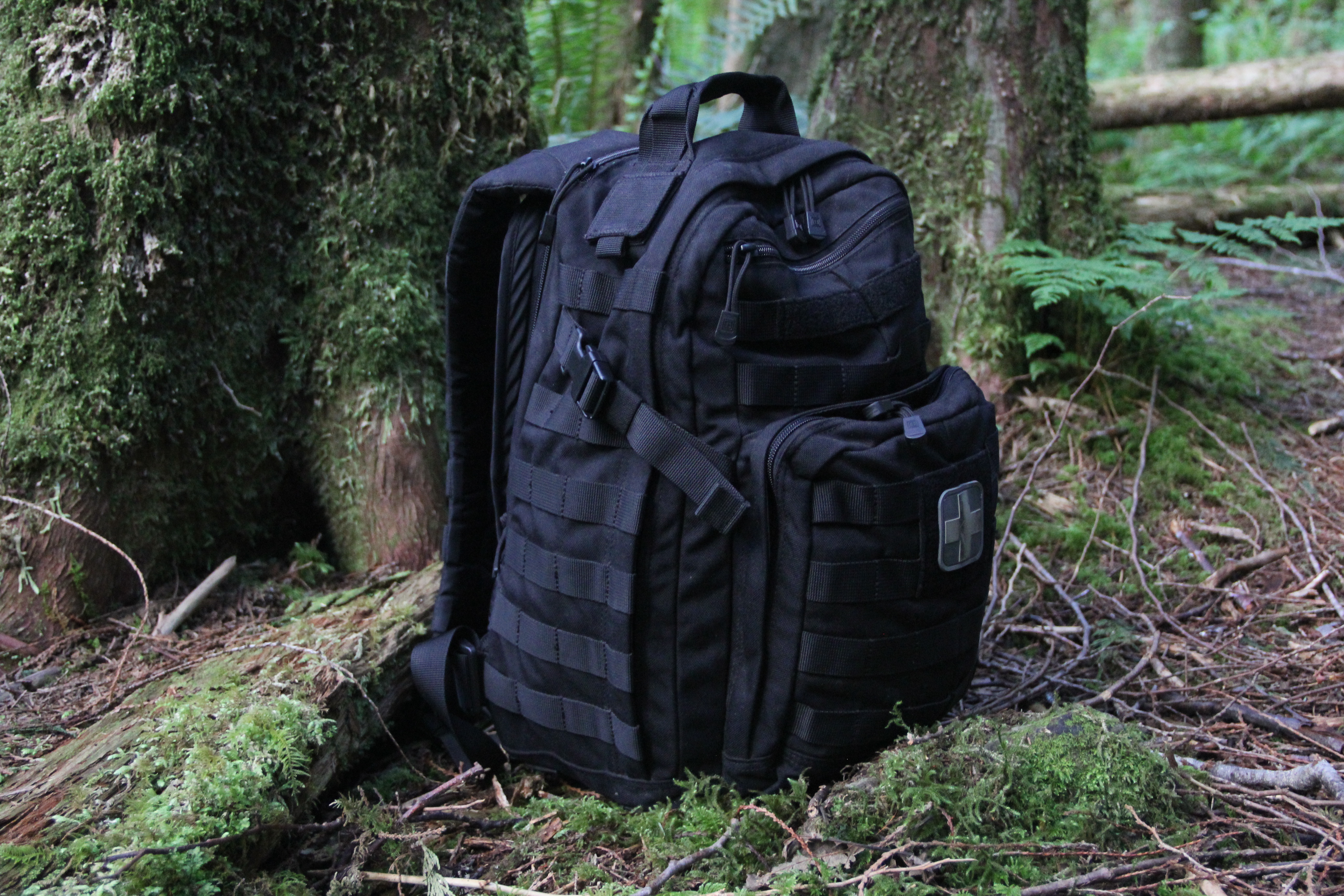 Tactical backpack at Lower Falls Trail, which follows Gold Creek at Golden Ears Provincial Park in British Columbia, Canada.